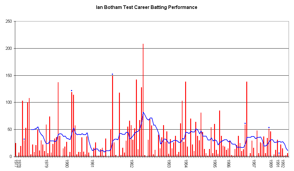 This graph details the Test Match performance of Ian Botham. It was created by Raven4x4x. The red bars indicate the player's test match innings, while the blue line shows the average of the ten most recent innings at that point. Note that this average cannot be calculated for the first nine innings. The blue dots indicate innings in which Botham finished not-out. This graph was generated with Microsoft Excel 2002, using data from Cricinfo and .au.